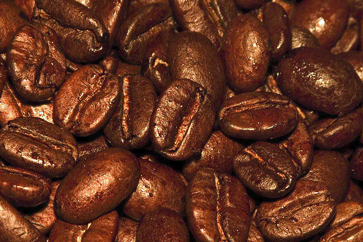 Roasted coffee beans.